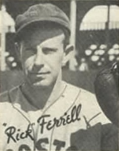 Boston Red Sox catcher Rick Ferrell's 1936 Goudey baseball card.